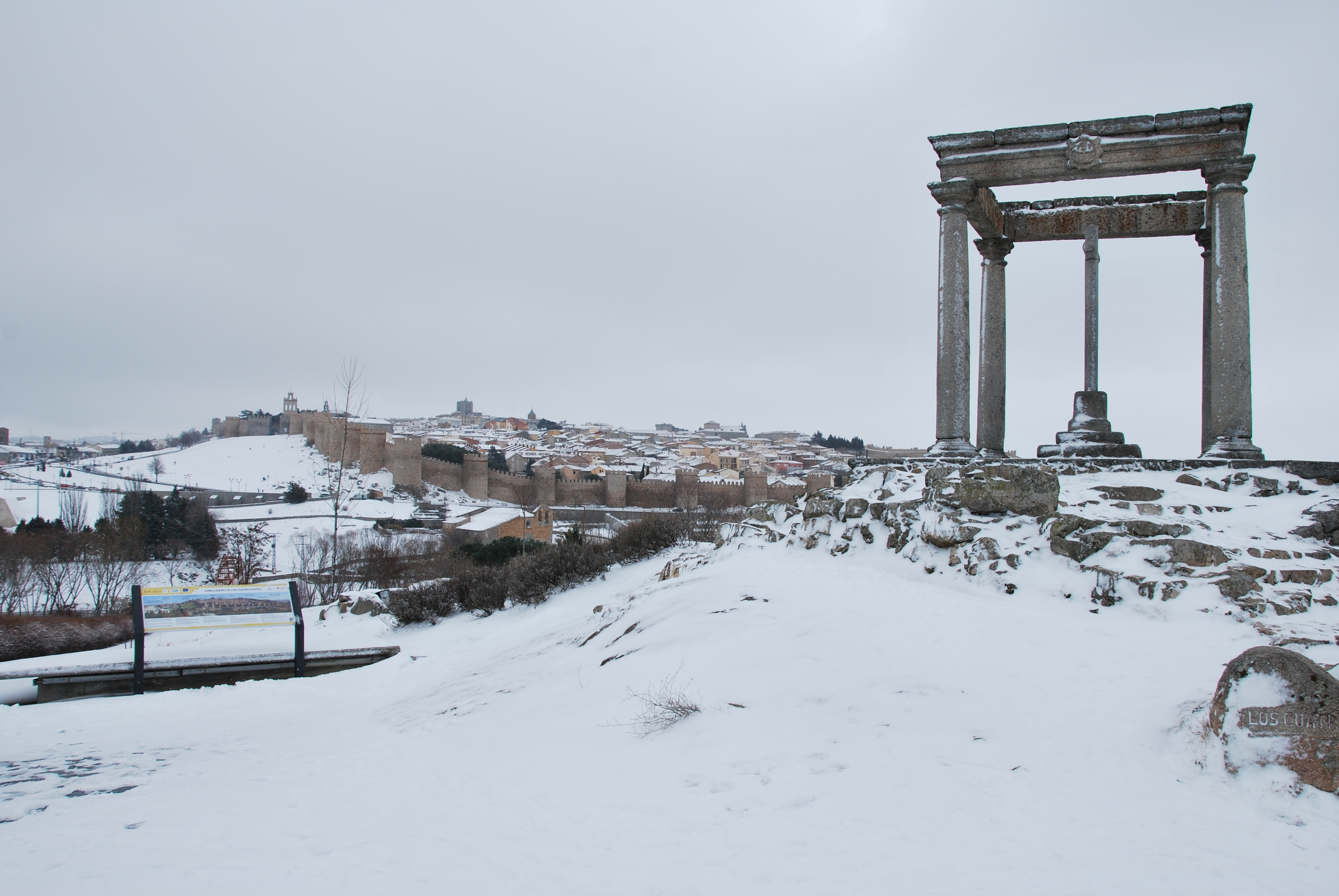 Quatro postes and city walls of Avila in winter